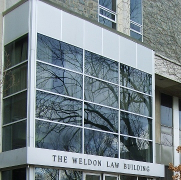 I took this picture in front of the Weldon Law Building, Dalhousie University